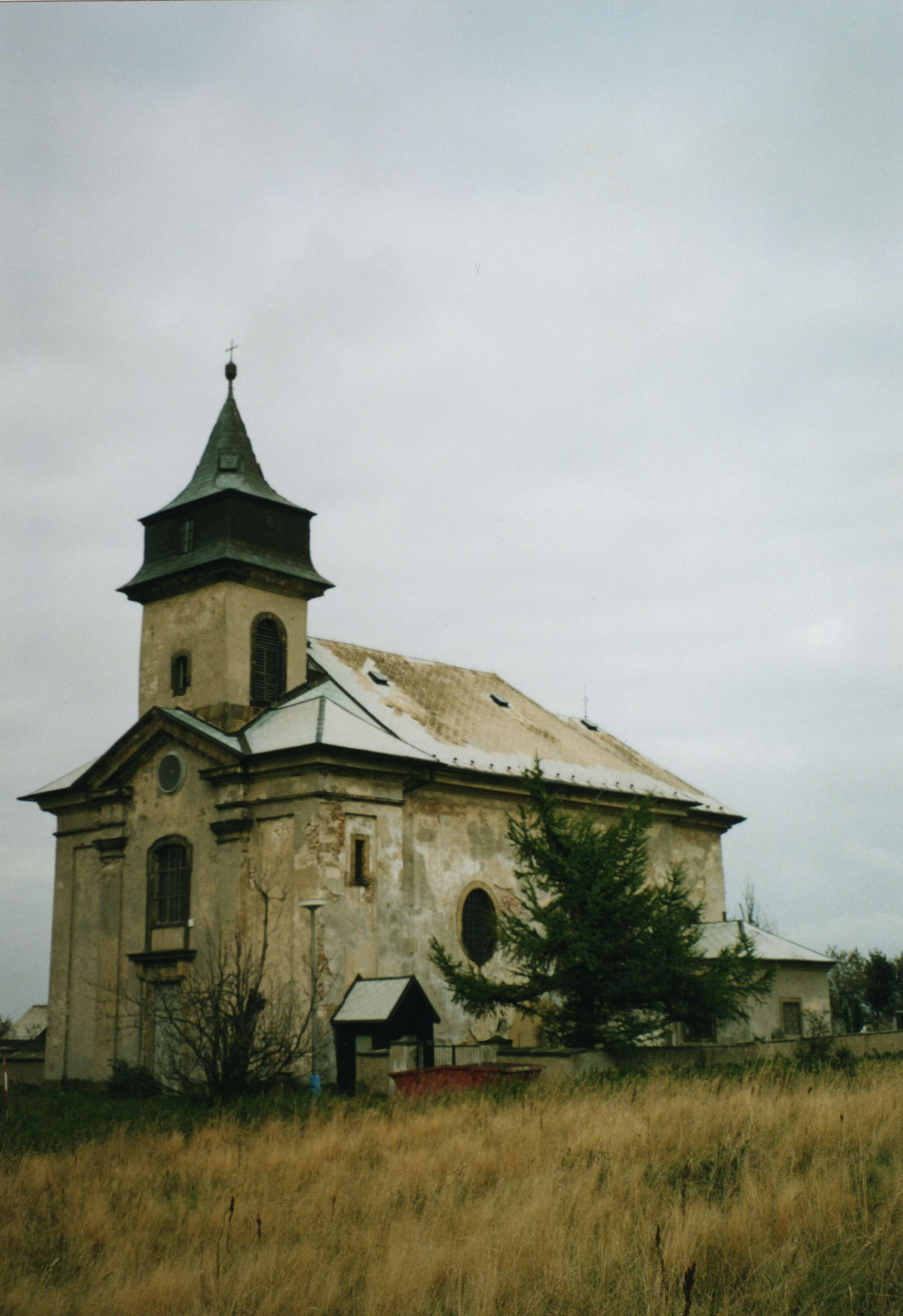 Church of the Assumptionin Cínovec (Zinnwald), Teplice District, Ústí nad Labem Region, Czech Republic